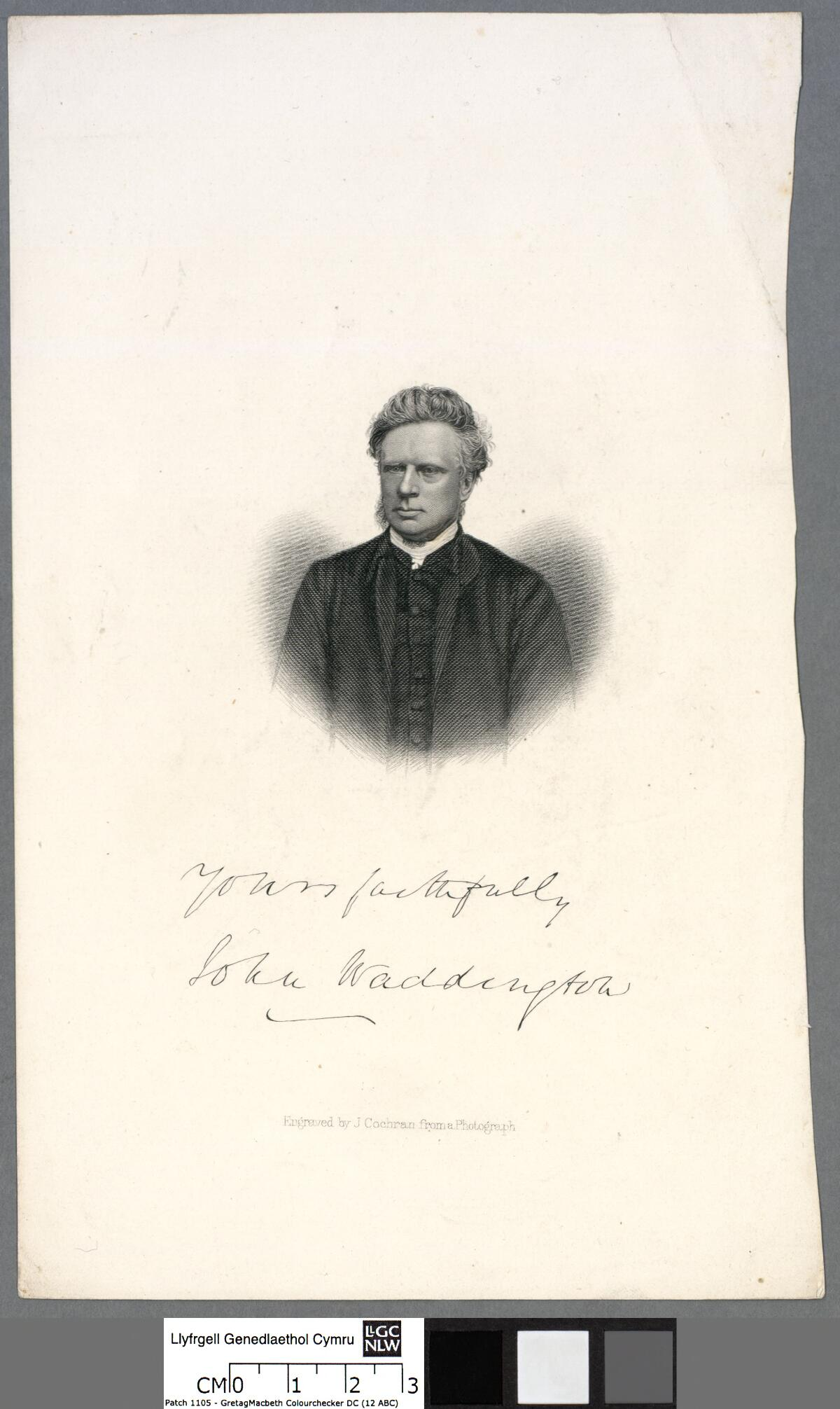 A portrait from the Welsh Portrait Collection at the National Library of Wales. Depicted person: John Waddington – British nonconformist (Congregational) divine and writer